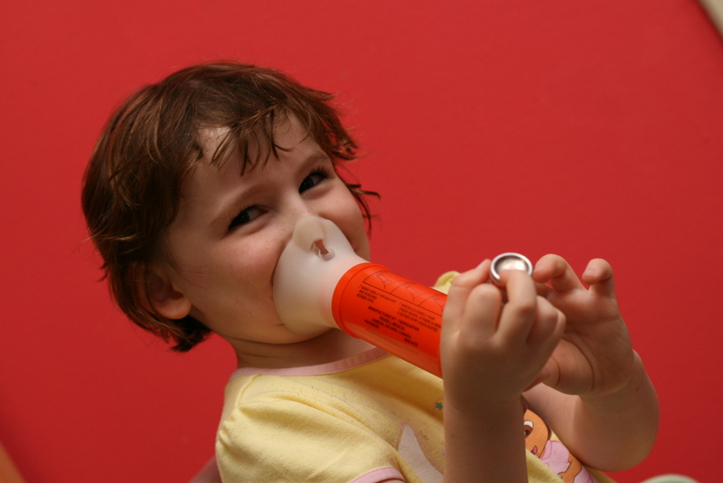 Asthma sufferers may not be able to breathe properly. They use a spacer to inhale medicine.